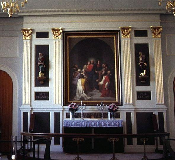 Brahetrolleborg Church in Faaborg-Midtfyn Kommune from apr. 1200